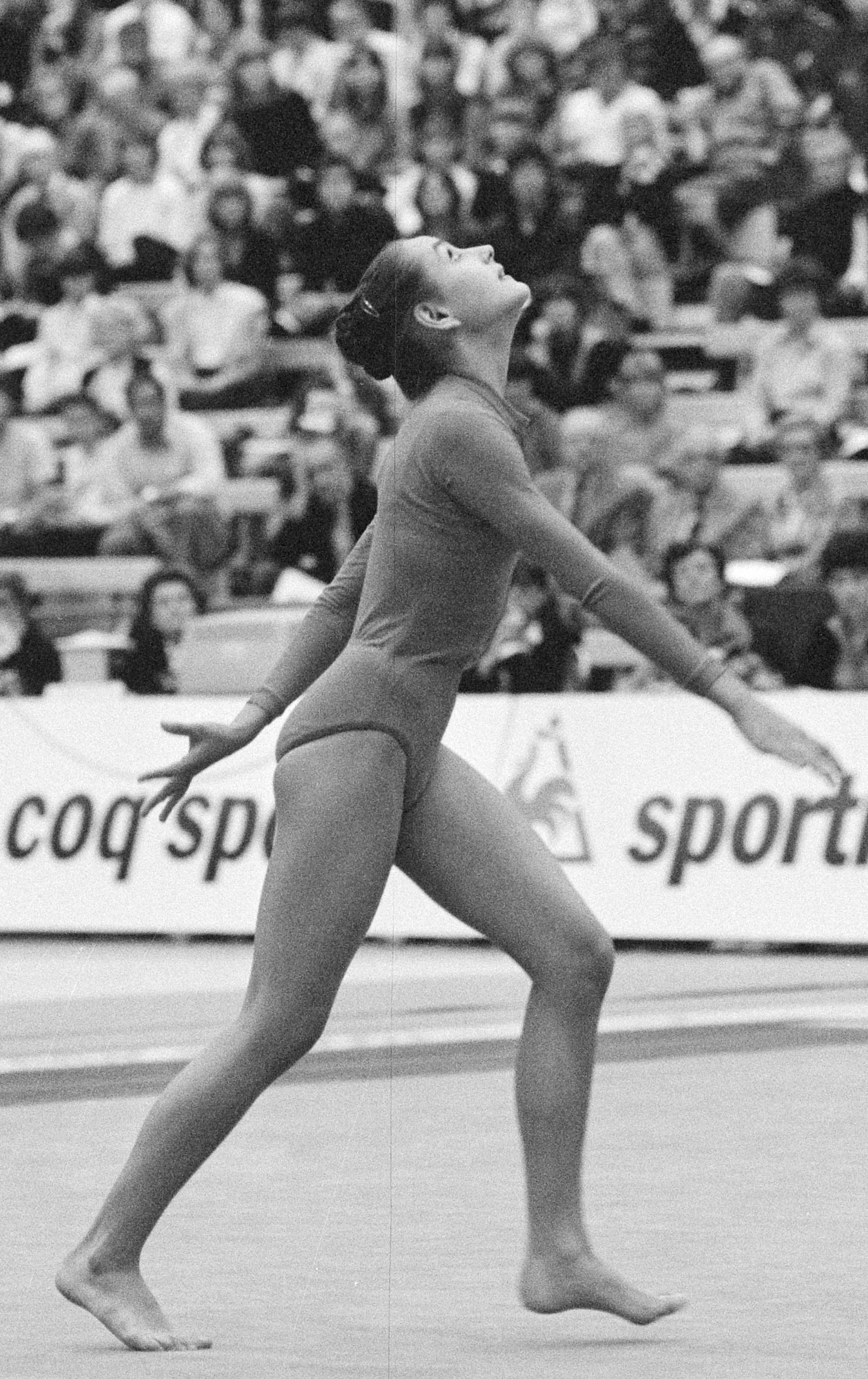 Europese kampioenschappen Ritmische Gymnastiek in Amsterdam, Lissovskja (USSR)